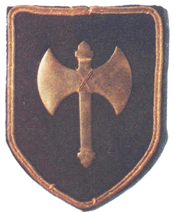 Symbol of the "Phalange africaine" of colonel Petru Cristofini, taken from a book edited in 1943.Not copyrighted because nearly 70 years old original photo.I have done a digital photo with my Kodak and enlarged it with my software.